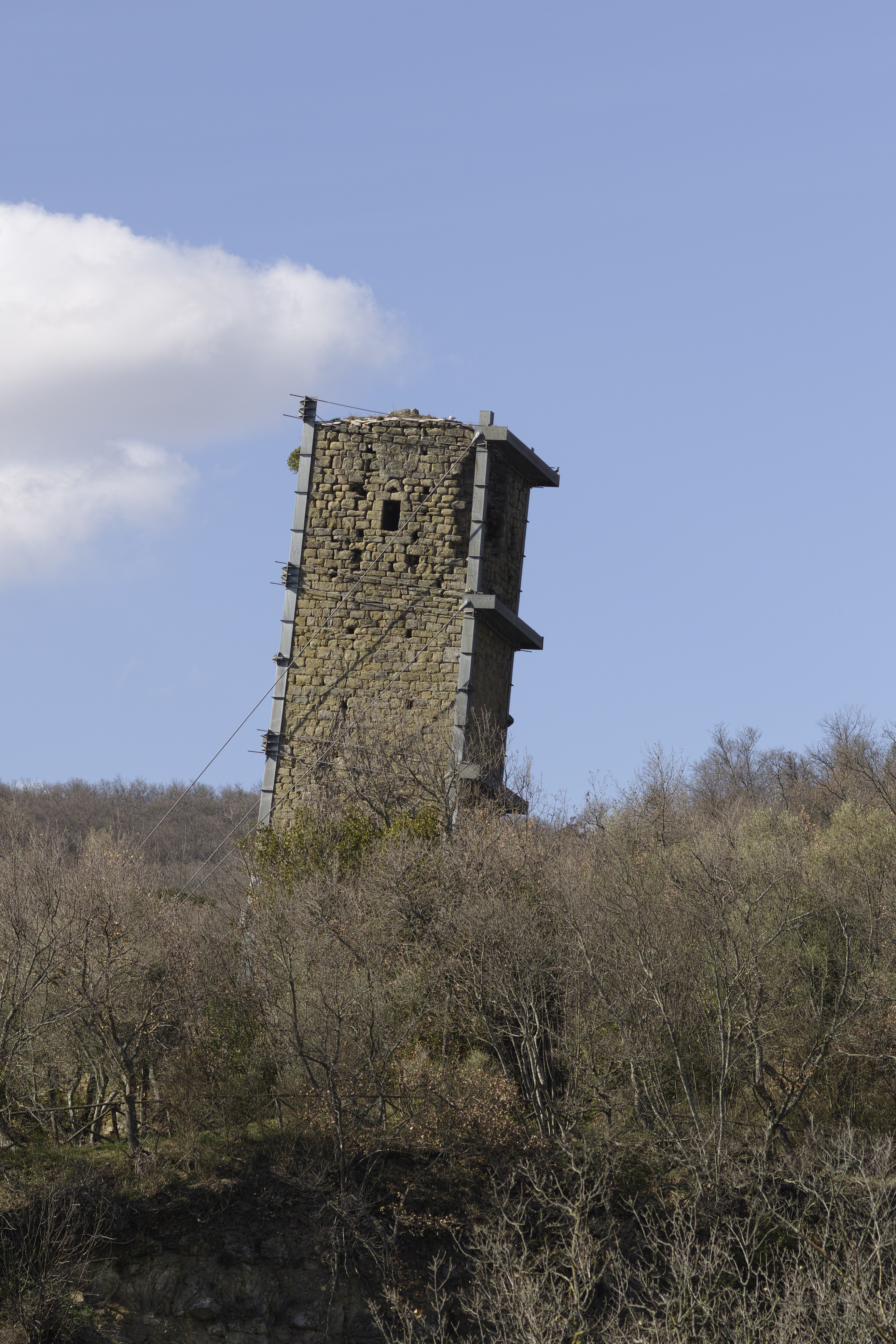 Vernazzano pending tower